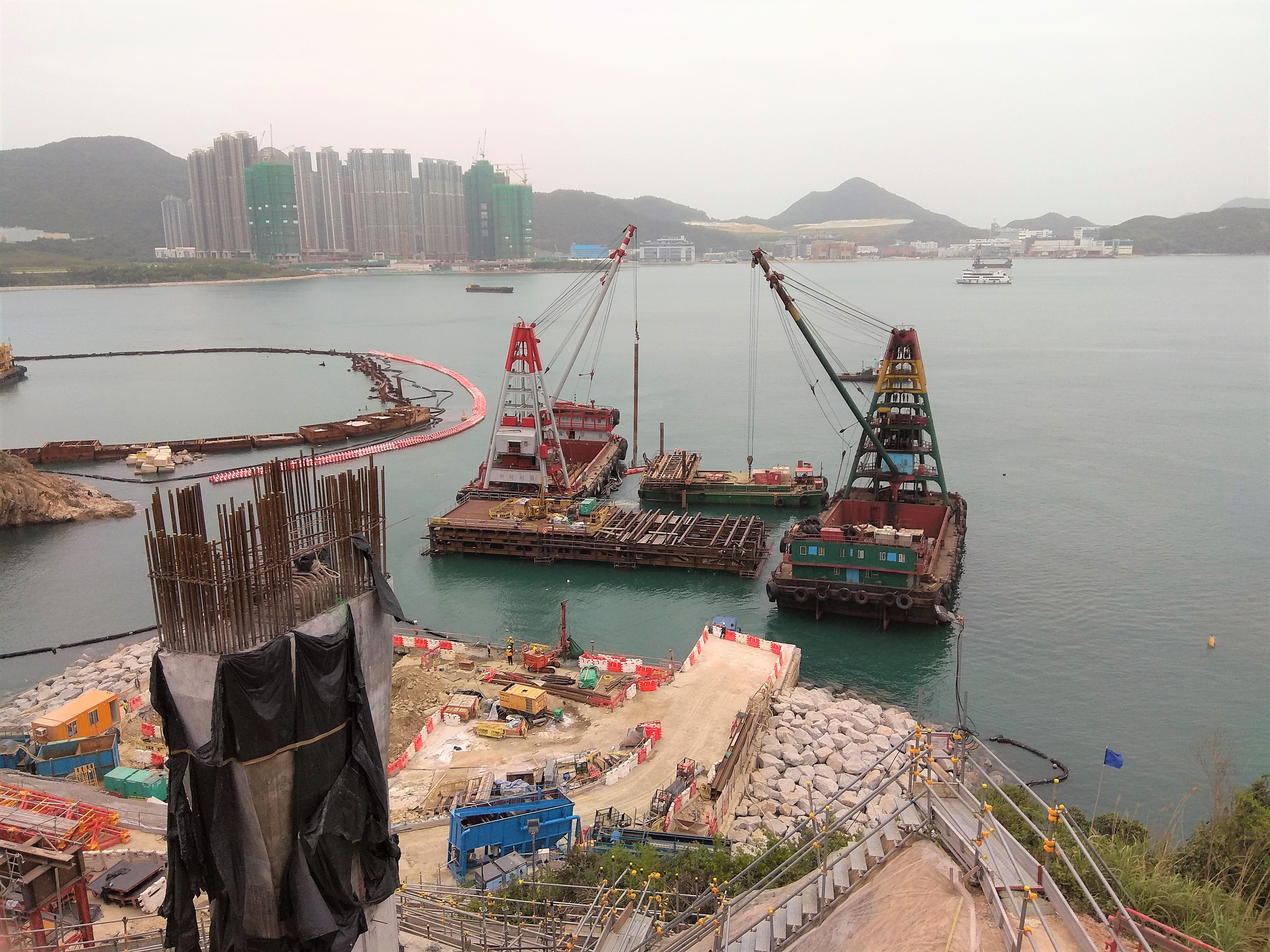 Cross Bay Link, Tseung Kwan O, Hong Kong